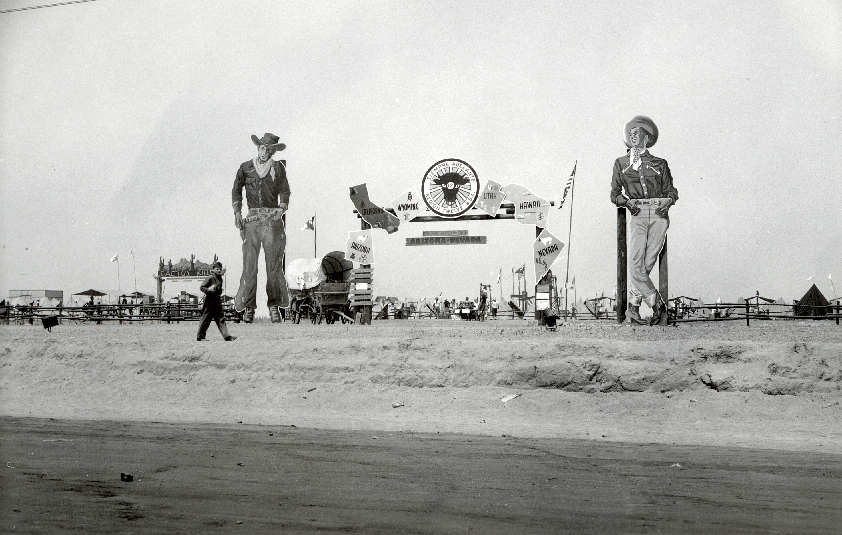 Region XII gateway The national 1953 Boy Scout Jamboree was held on Irvine Ranch in what's now part of the City of Newport Beach. There are no known copyright restrictions on this image. All future uses of this photo should include the courtesy line, "Photo courtesy Orange County Archives." Comments are welcome after reading our Comment Policy. Photo from the Tom Pulley Collection.